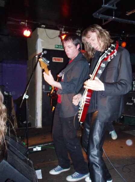 Andy Abberley & Brian Tatler of Dimaond Head = 2005 @ The Twist, Colchester